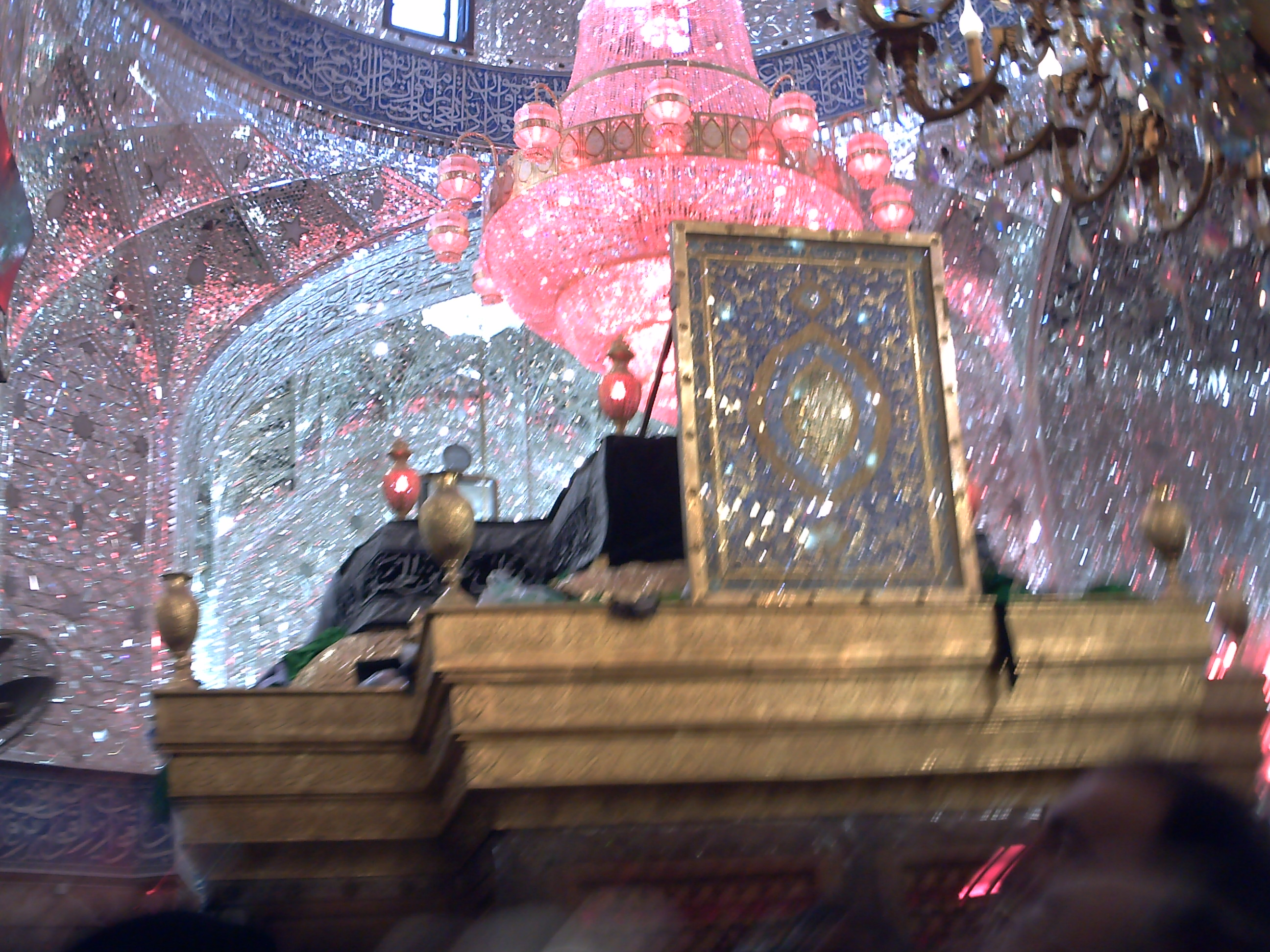 Zarih of Imam Husain, Karbala